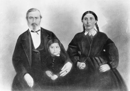 Alexander, Joe, and Natawista Culbertson photographed in 1863